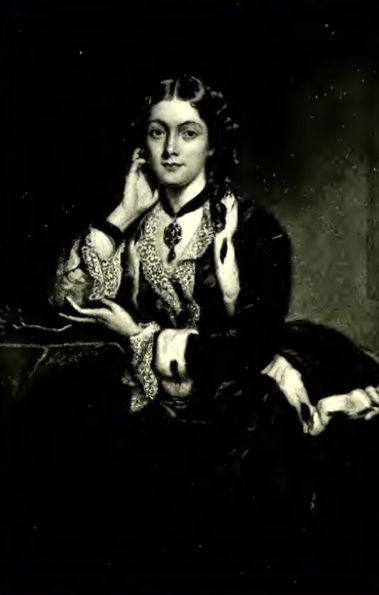 This image was published in a Tribute volume to Rt. Hon. Caroline, Countess Dowager of Seafield following her death in 1911. No copyright was claimed in the original publication.